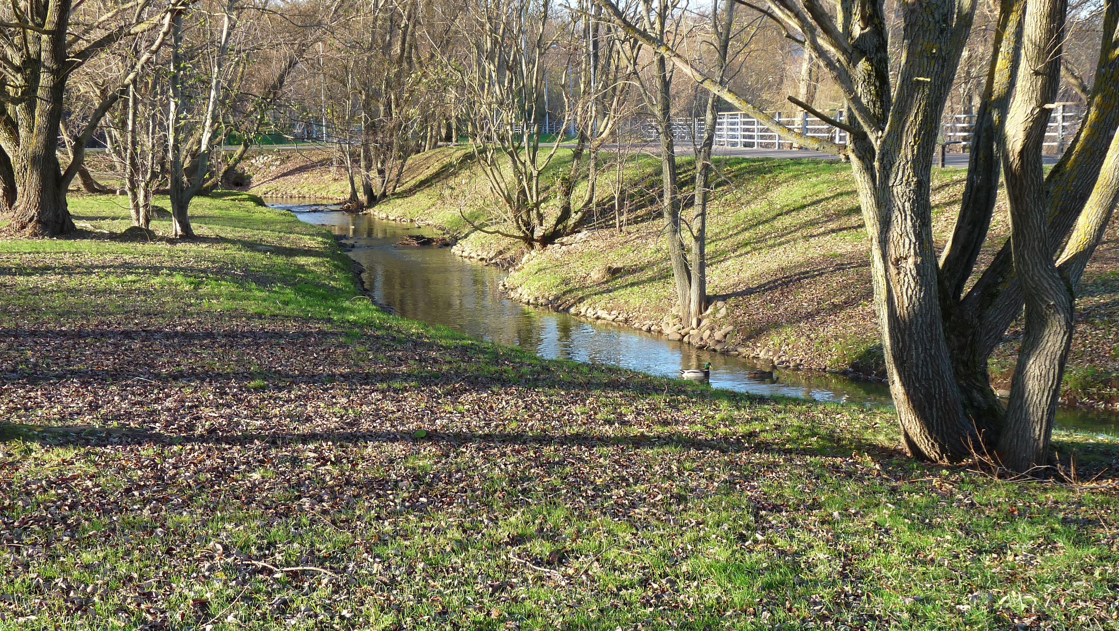 Haabersti